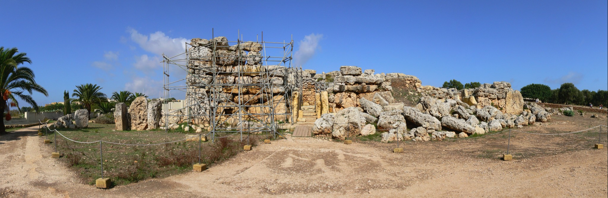 Ġgantija temple front view (Xagħra, Gozo)